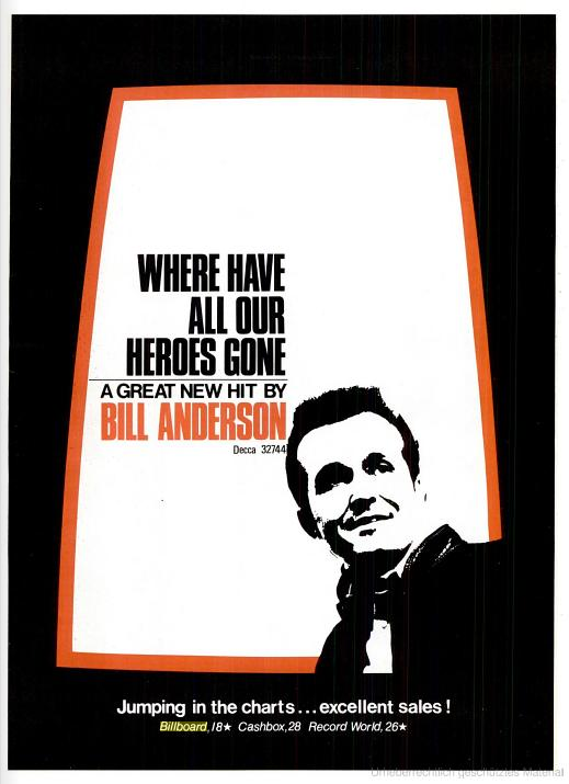 Bill Anderson - Where Have All Our Heroes Gone, 1970